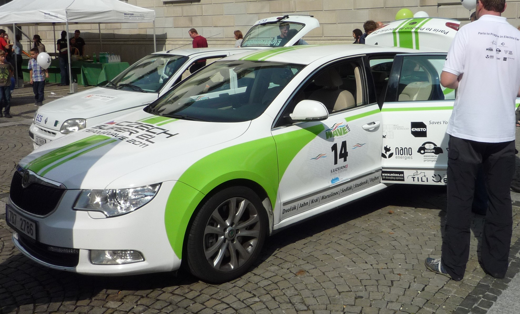 Skoda Superb EVC on a rally in Switzerland